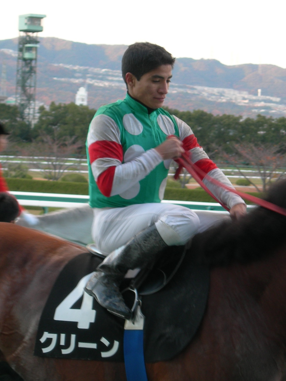 Alan Garcia gave his second win in Japan in Hanshin Racecourse. taken in 2008.